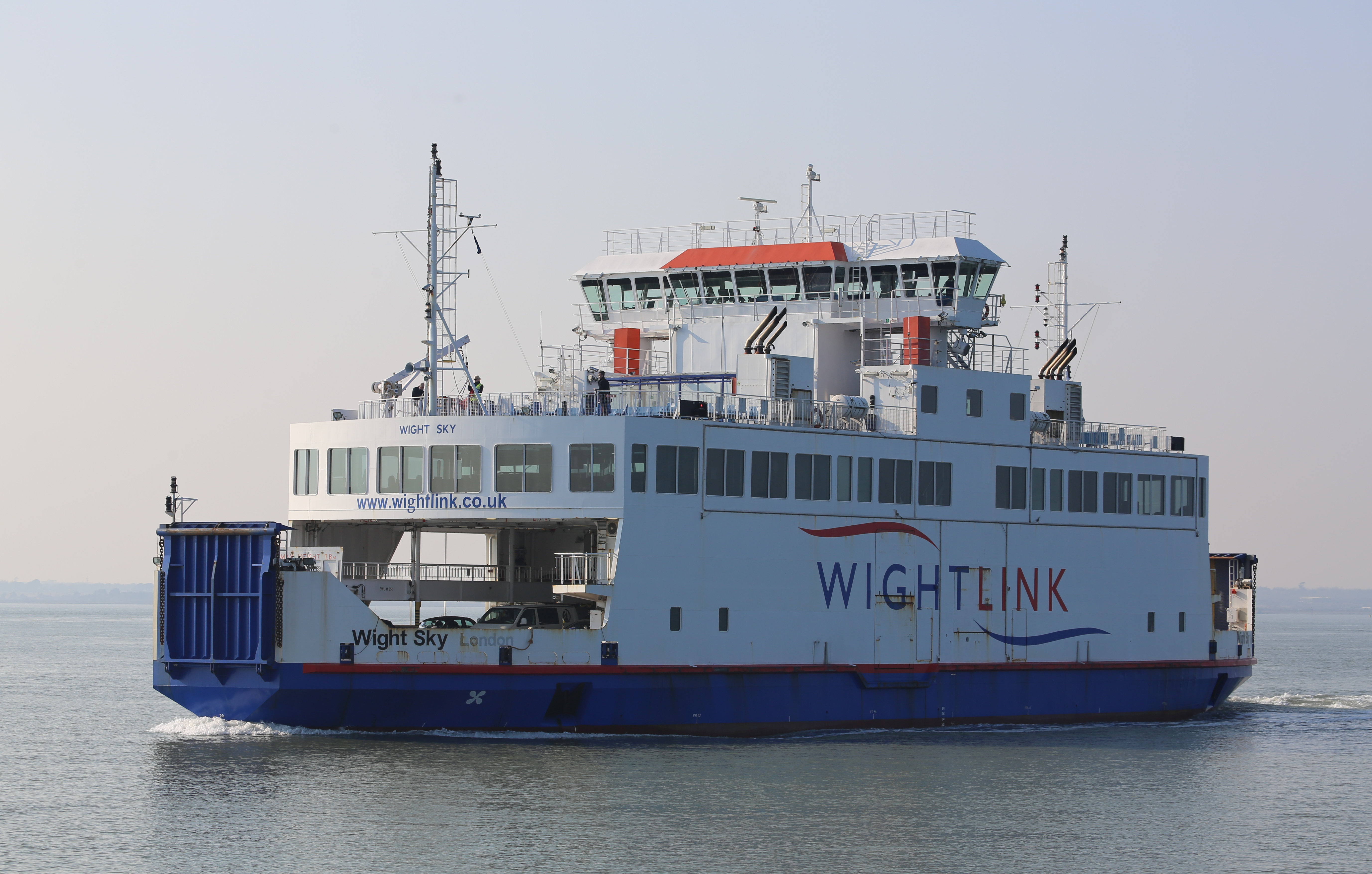 Photo of MV Wight Sky Approaching Yarmouth